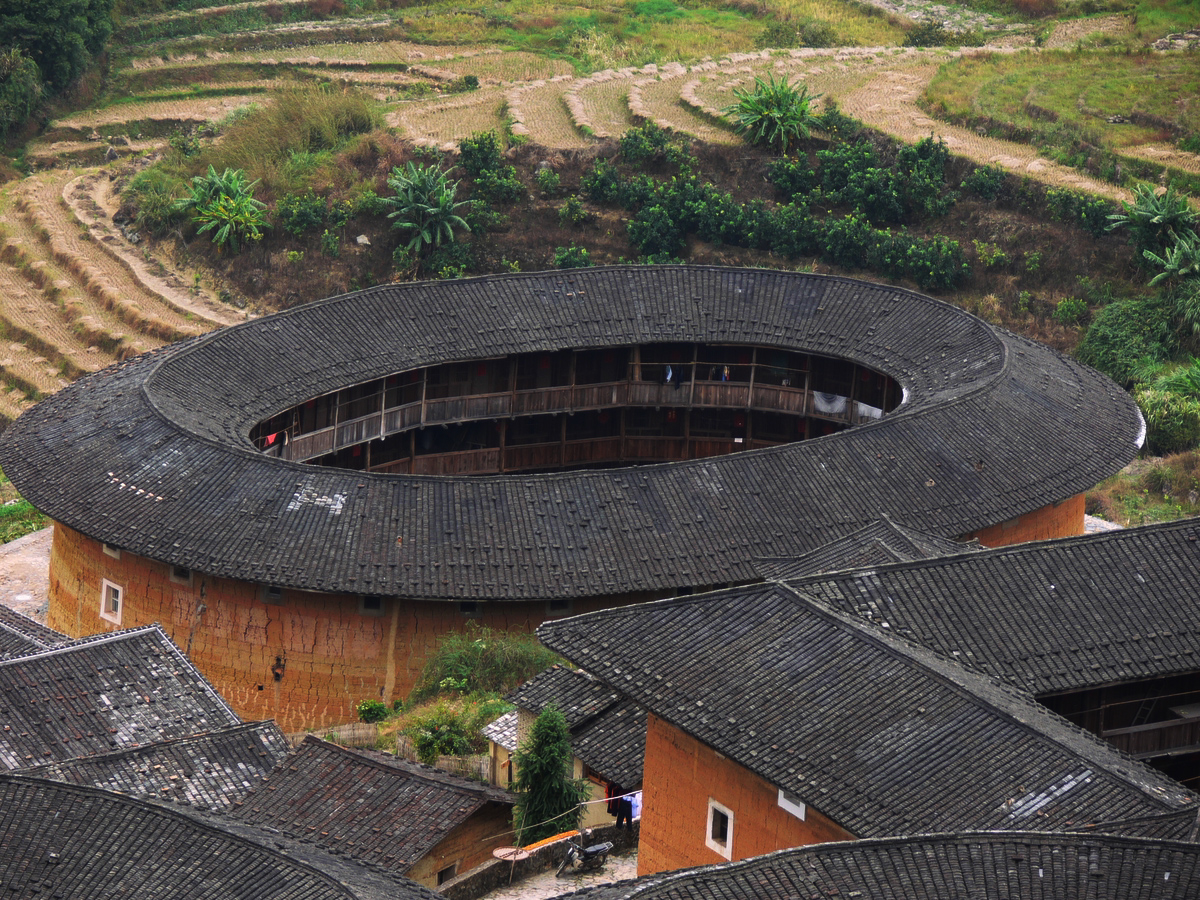 Oval shape tulou 中文（中国大陆）: 椭圆形土楼——“文昌楼”